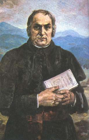 Alexander Dukhnovich (24 April 1803 — 30 March 1865) a poet of Rusyn decent. From [1]